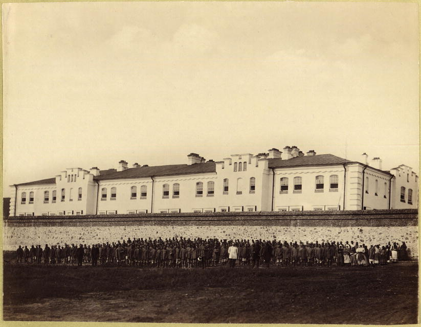 Convicts in front of Gorno-Zerentuisk prison